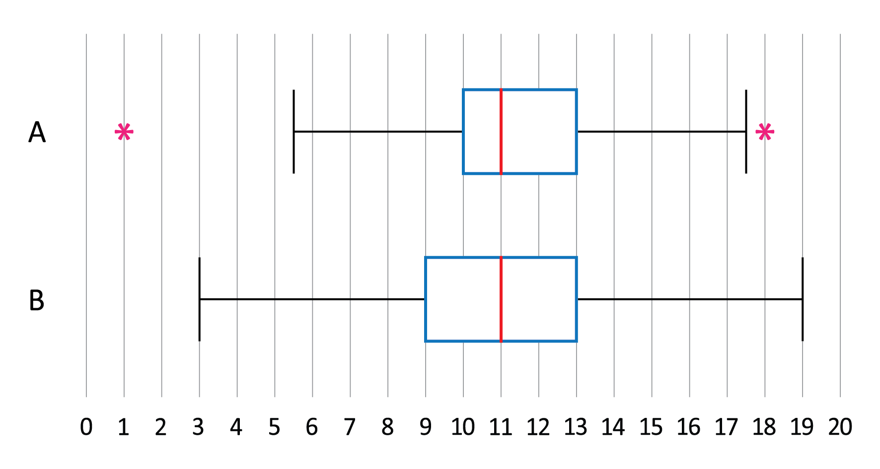 Boxplot of the data sets A = {1, 6, 10, 10, 11, 13, 13, 17, 18} and B = {9, 9, 9, 10, 11, 11, 13, 13, 14}. The blue rectangle represents the interquartile range, the red line the median, and the black stems represent the lower and upper limits of each set (being replaced by the maximum and minimum values, respectively, when they exceed those values). All quartiles were calculated using the inclusive method.